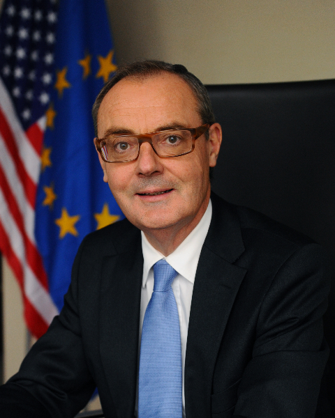 David O’Sullivan, European Union Ambassador to the United States